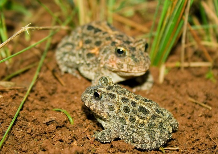 Proceratophrys moratoi at Estação Ecológica de Itirapina (Itirapina, Sao Paulo, Brazil)